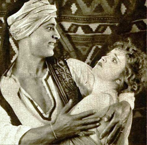 Still from the American silent film The Sheik (1921) with Rudolph Valentino and Agnes Ayres, on page 25 of the December 1921 Screenland.